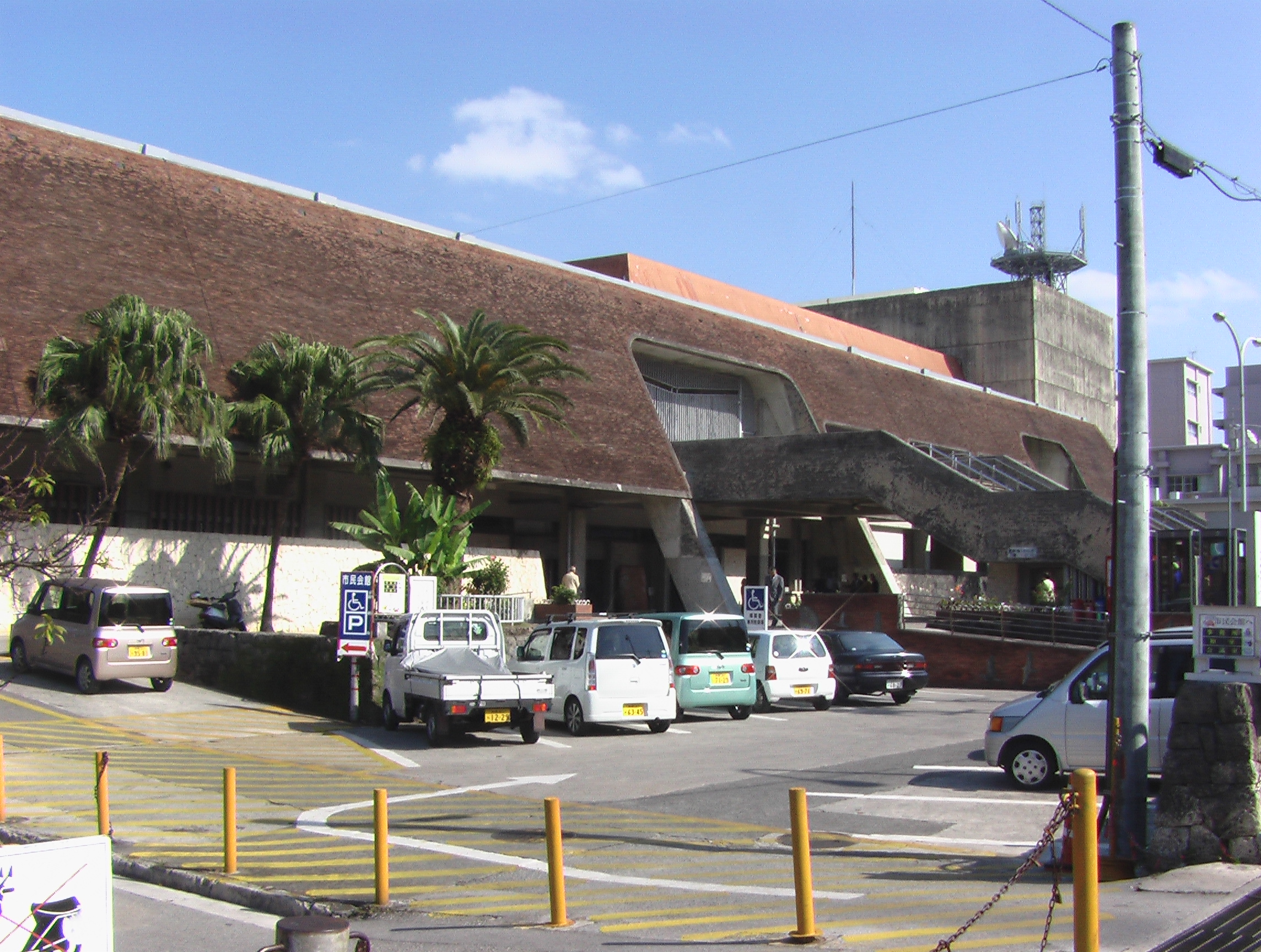 Naha Civil Hall